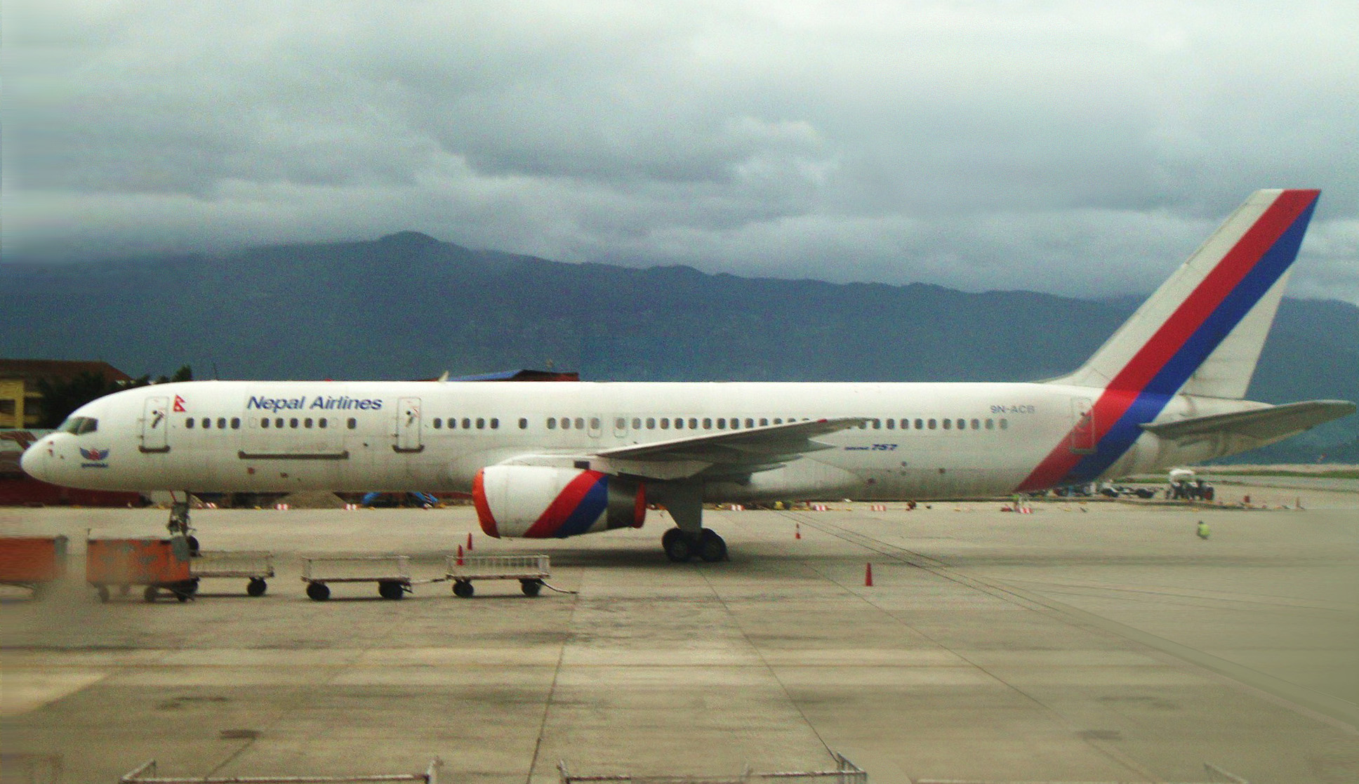 Nepal Airlines Boeing 757-200 Combi at Tribhuvan International Airport, Kathmandu, Nepal